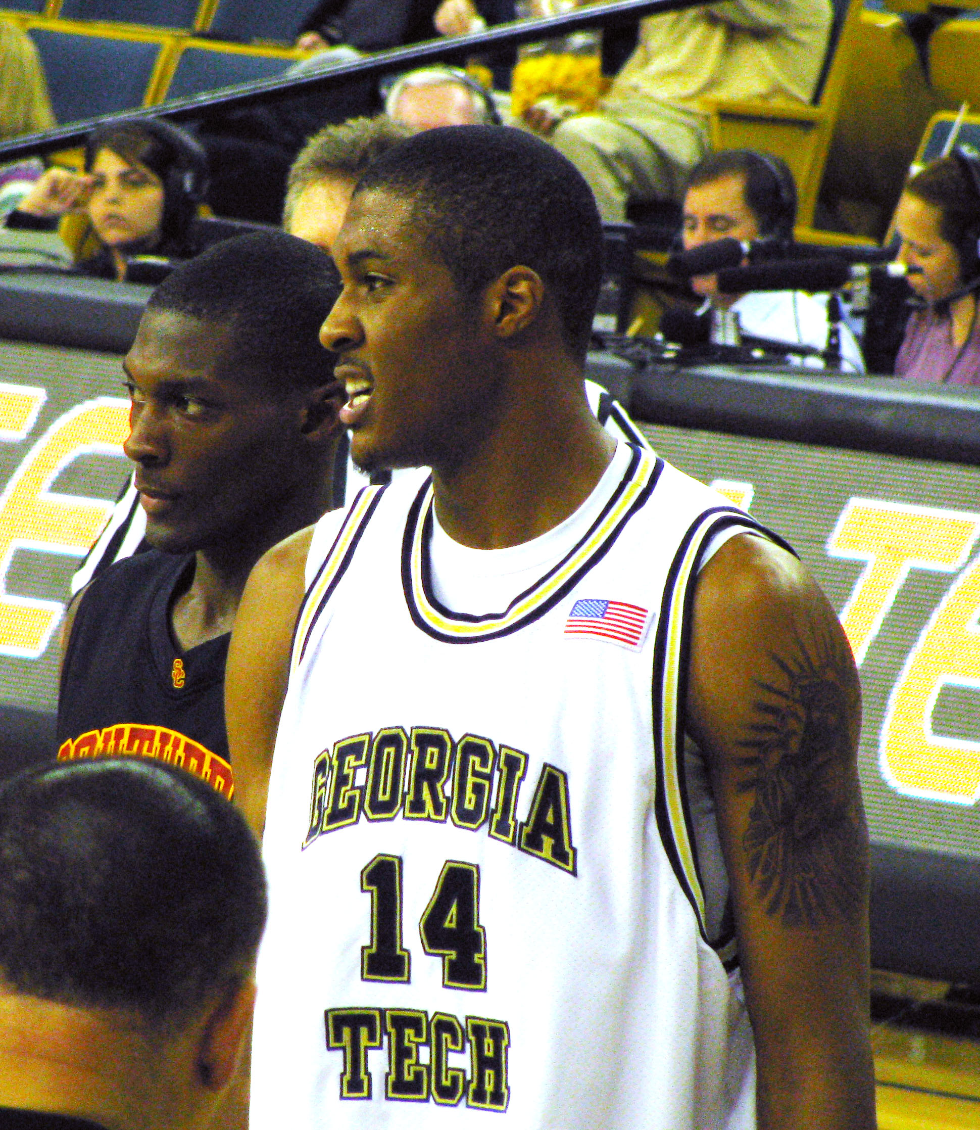 Derrick Favors lines up against USC